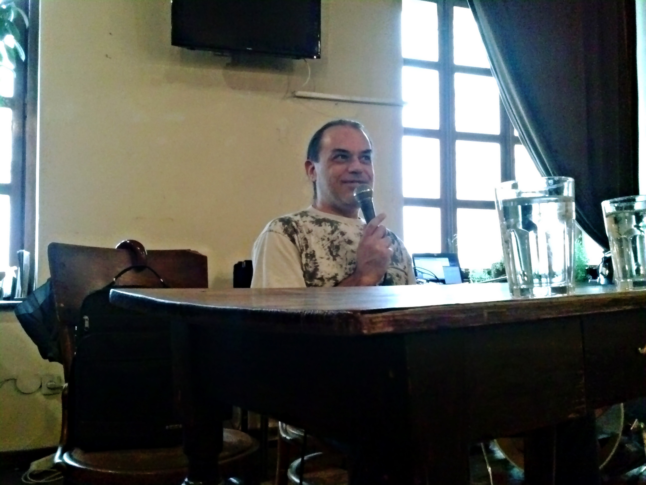 Alexander Shchetynsky in Lviv, Ukraine, speaking with audience at "Kvartyra 35" Art-cafe (Dzyga) as part of Contrasts festival